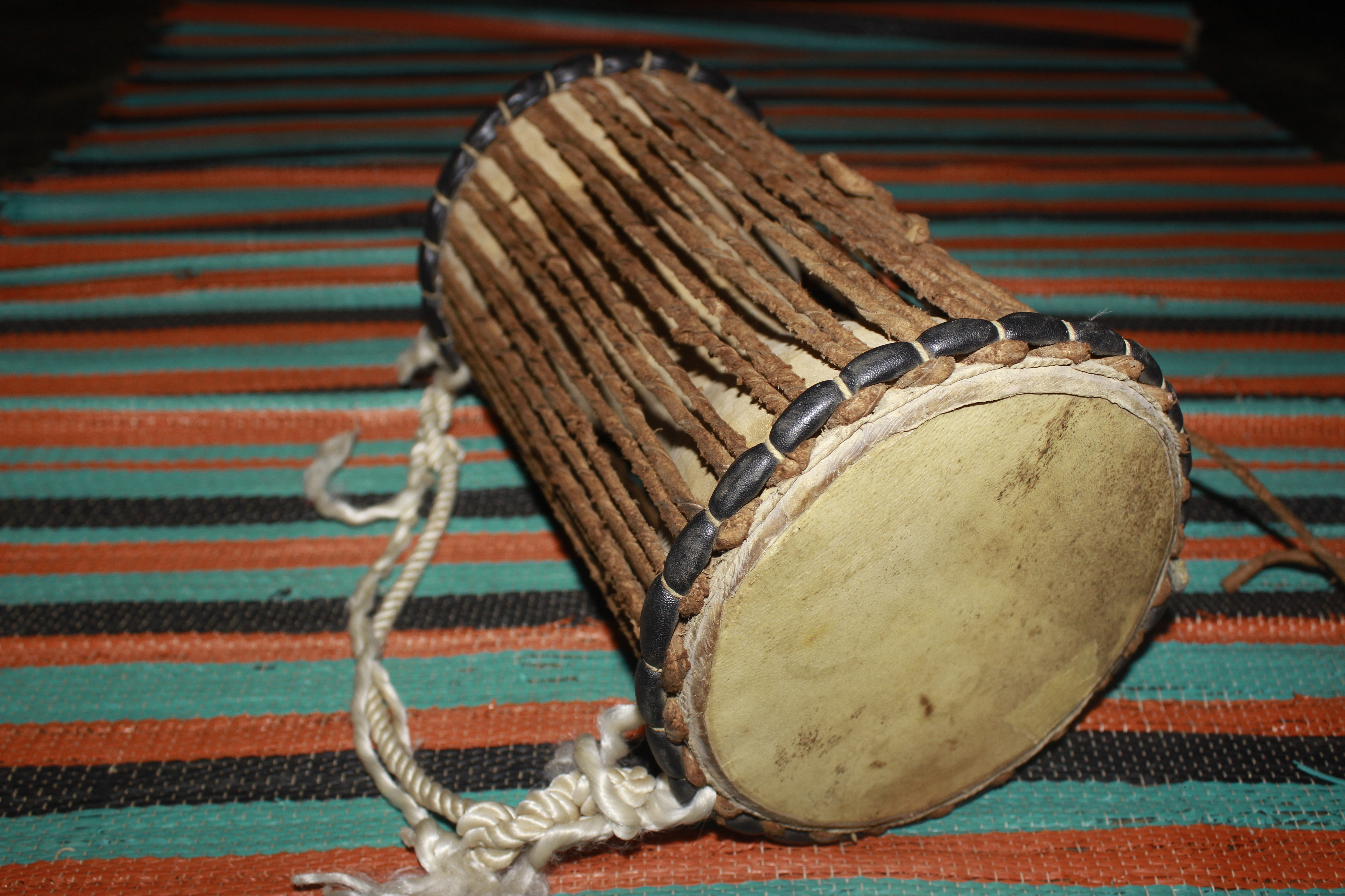 The Yoruba people make use of this instrument to make music. It is played with a curved head stick. This is an image from Nigeria